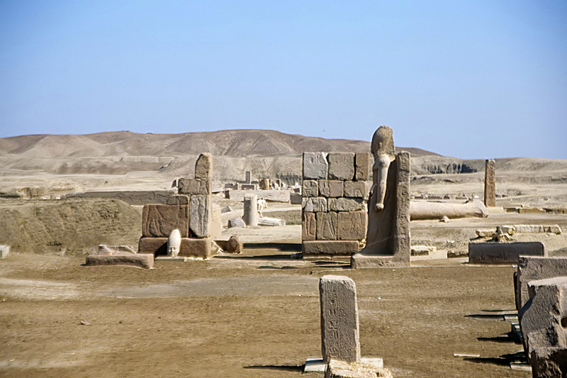 Entrance of the Temple of Amun, San el-Hagar (Tanis), Egypt